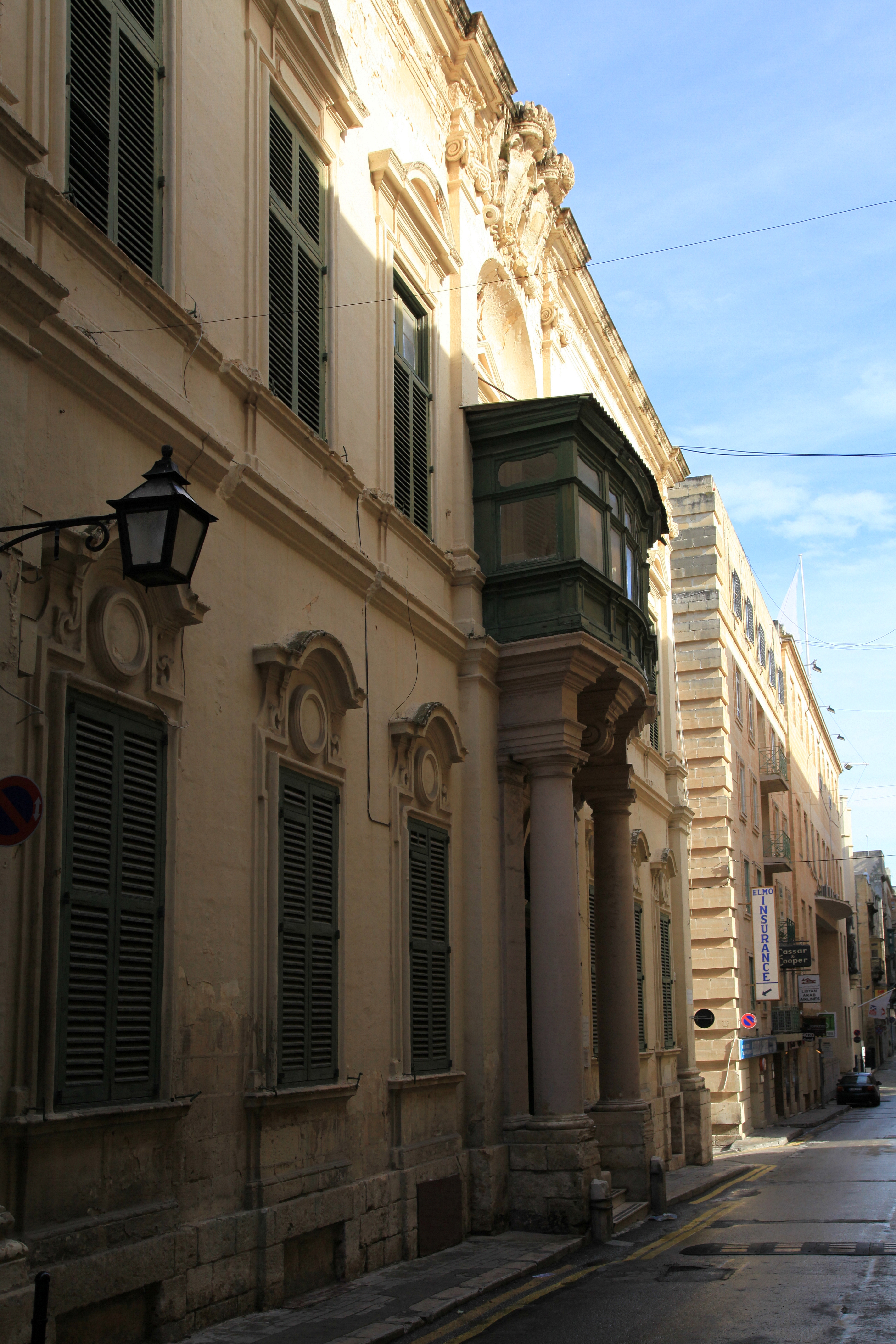 National Museum of Fine Arts, Triq Nofs-in-Nhar in Valletta, Malta